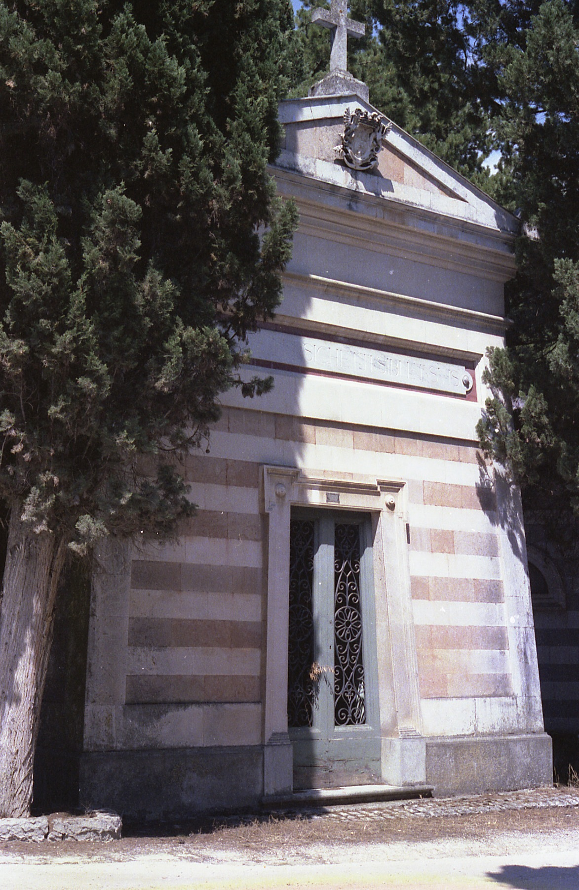 The Persichetti family chapel in the Aquila cemetery, in Italy. Besides it lies the grave of Karl Heinrich Ulrichs, the firs homosexual activist ever. Photo taken on july 10 1988 by Massimo Consoli.